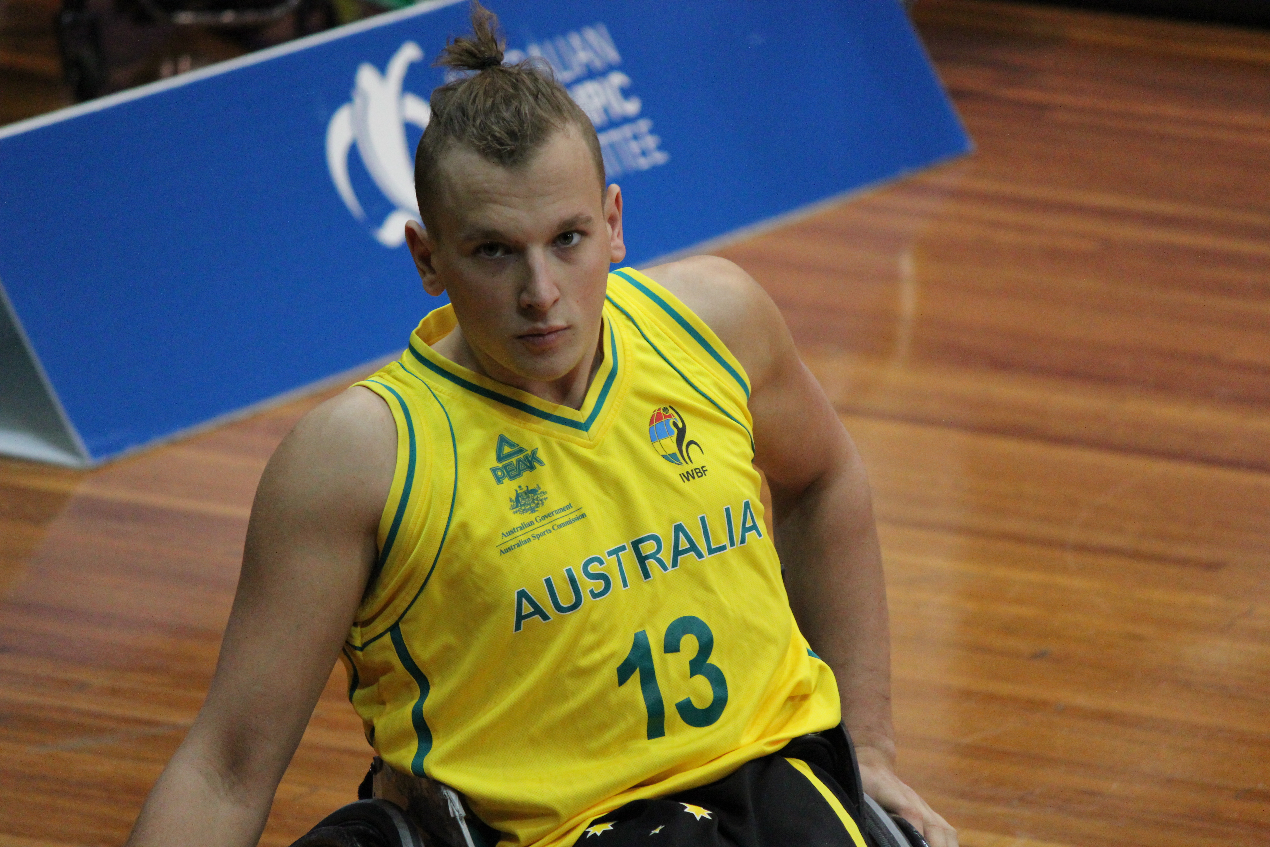 65–51 Australia men;s 19 July 2012 win over the Great Britain men's national wheelchair basketball team at Sydney;s Olympic Park. no 13 Dylan Alcott.